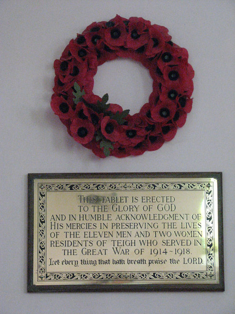 Teigh War Memorial Teigh is one of the few "Thankful Villages" which lost no one in the Great War. This plaque thanks God for "His mercies in preserving the lives of the eleven men and two women residents of Teigh who served in the Great War of 1914-1918".